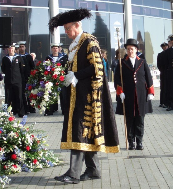 The Lord Mayor of Birmingham, Cllr Randal Brew OBE, lays a wreath at Birmingham's Nelson statue on 21st October 2007